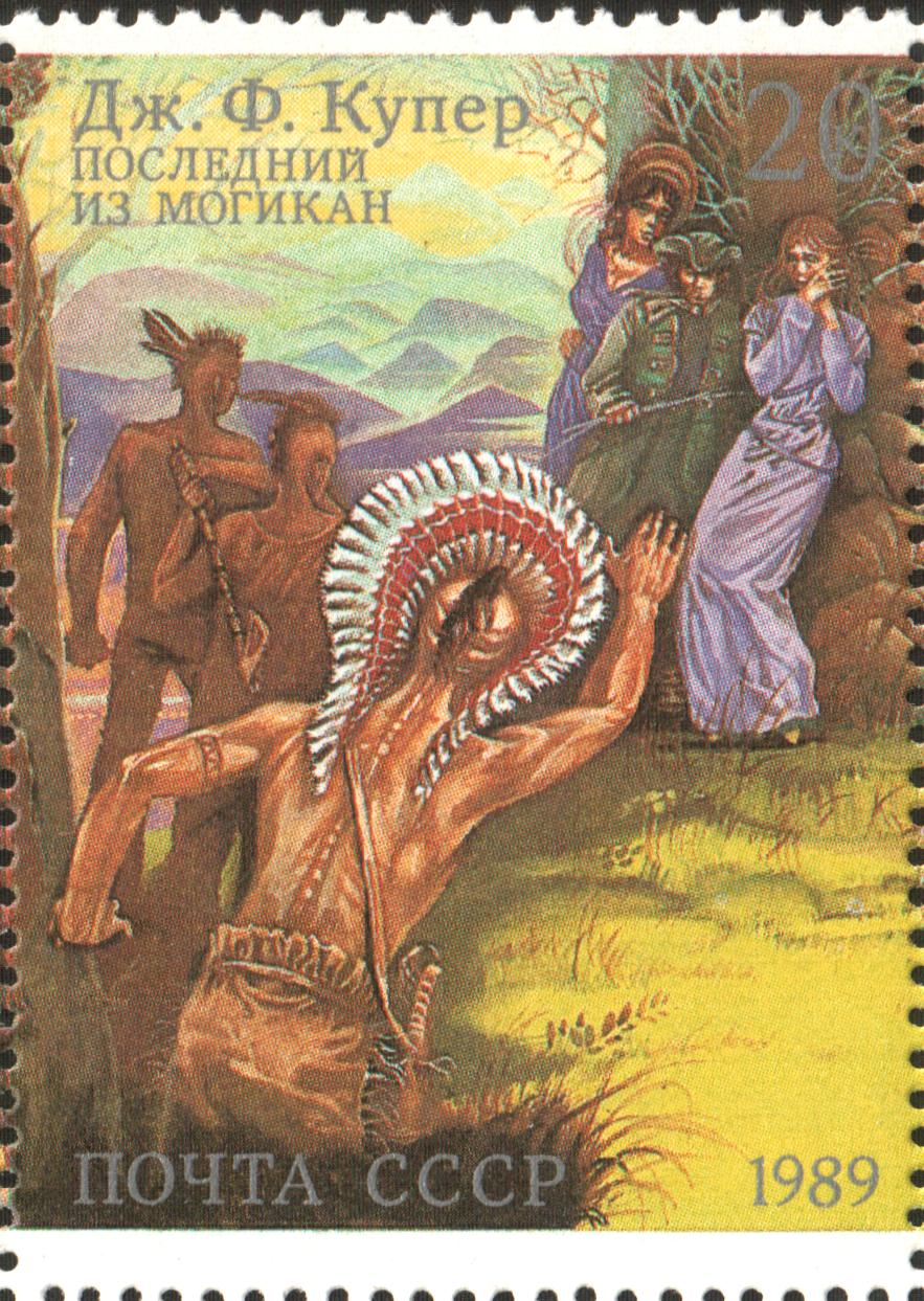 A USSR stamp